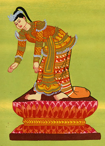 Shingon nat (spirit), 35th in the official pantheon of Burmese nats